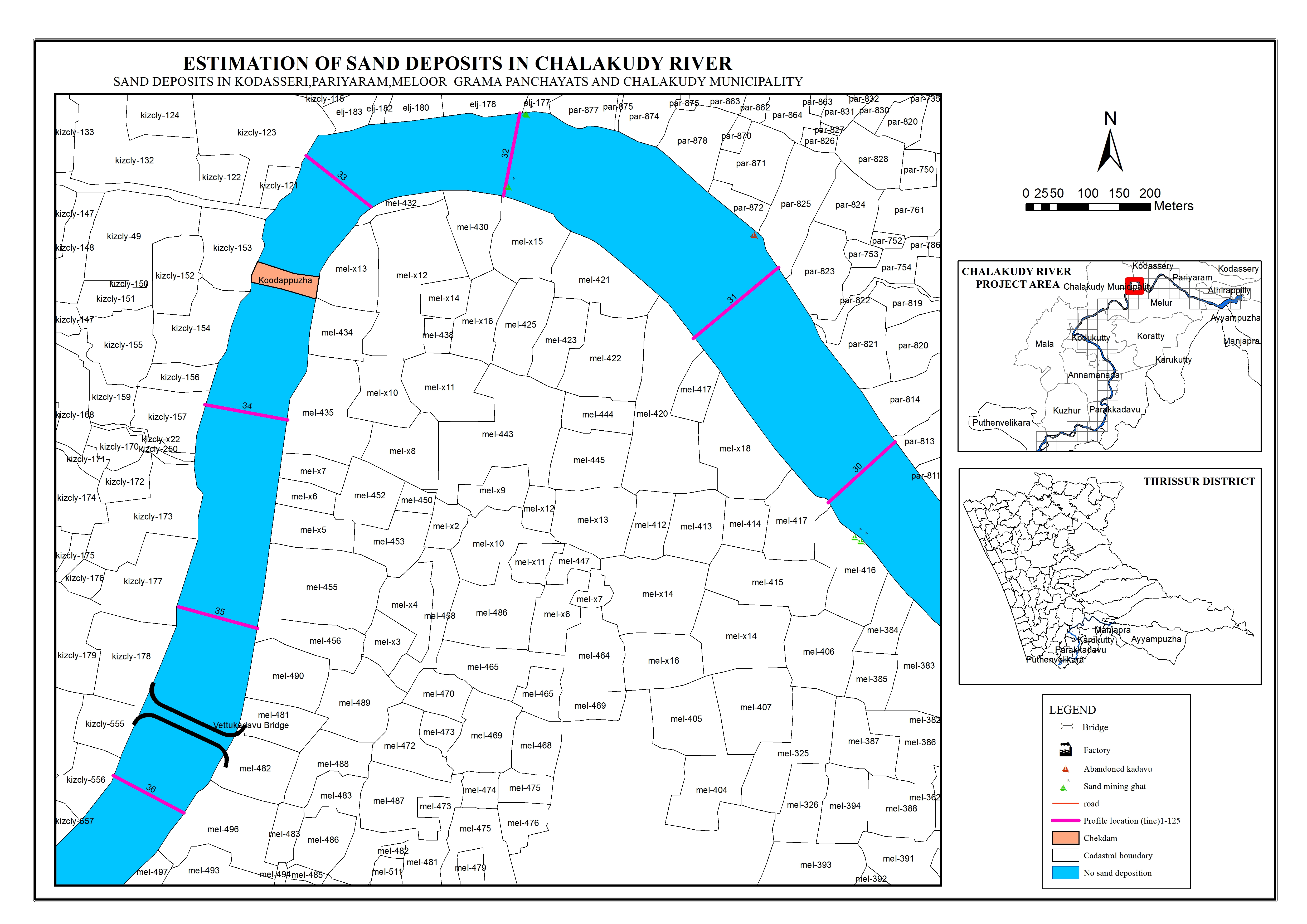 sand distribution map